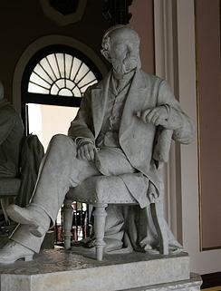 Estatua de Tomás Terry Adán en Cienfuegos (Cuba)